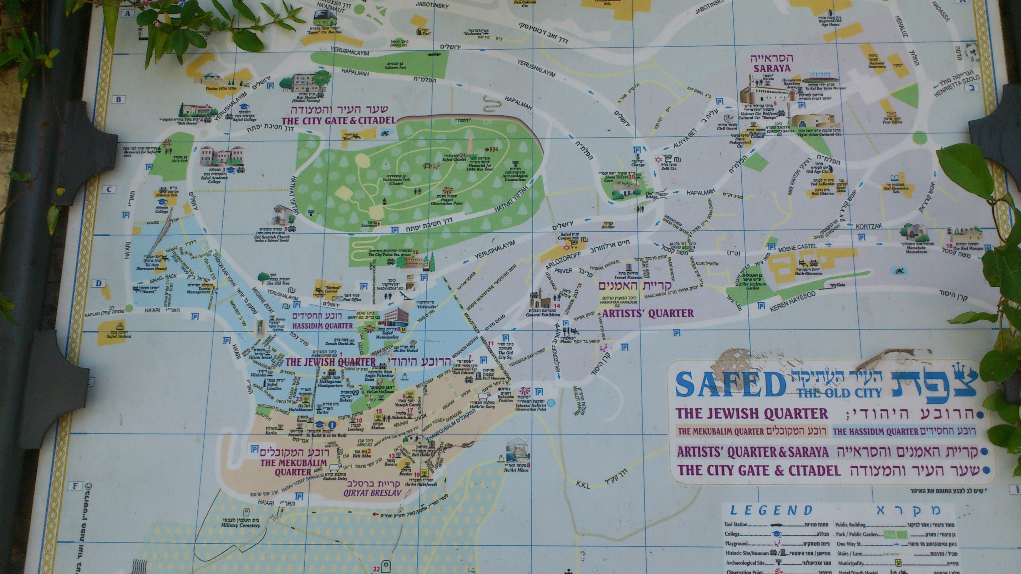 Old city, Safed